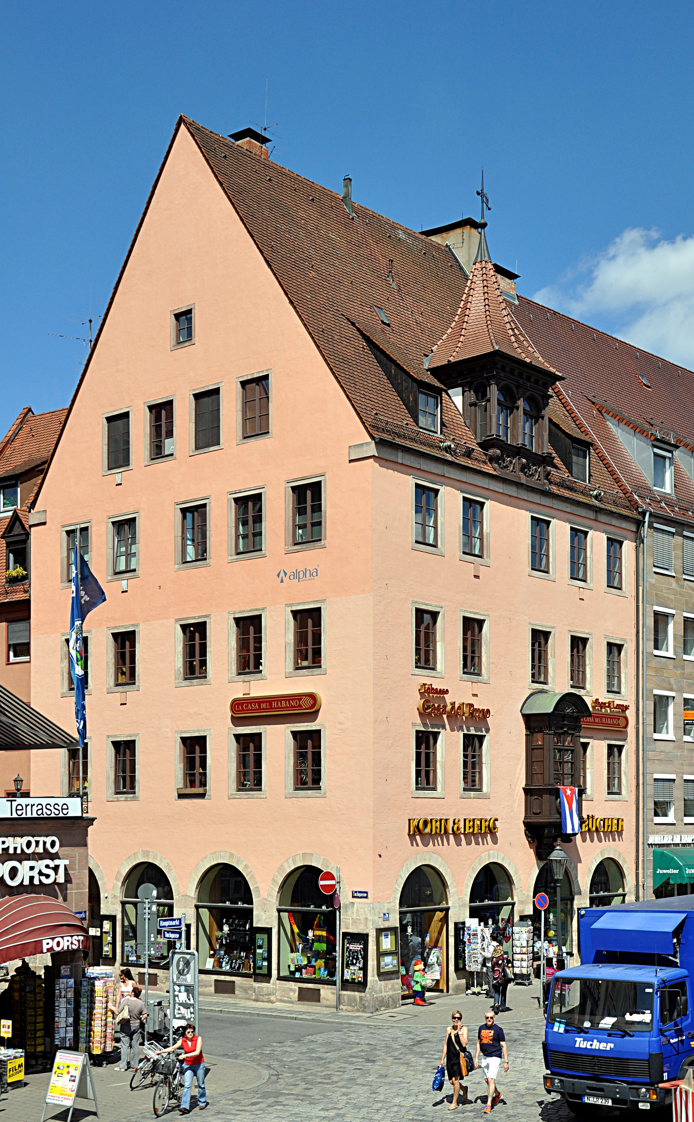 Bookshop 'Korn und Berg' in Nuremberg